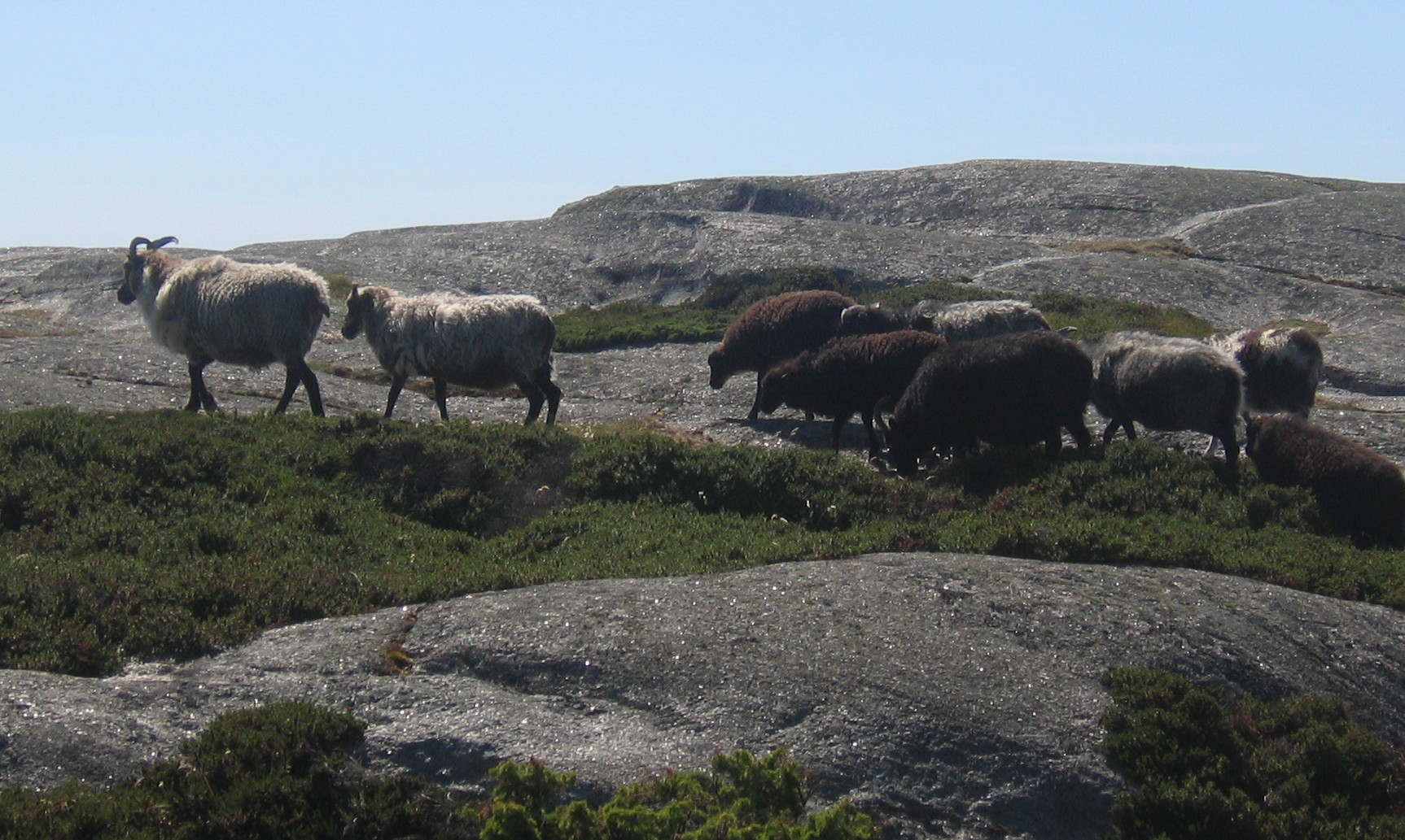 Old Norwegian sheep, utgangarsau, on island Kløvningen, Tjøme, Norway.